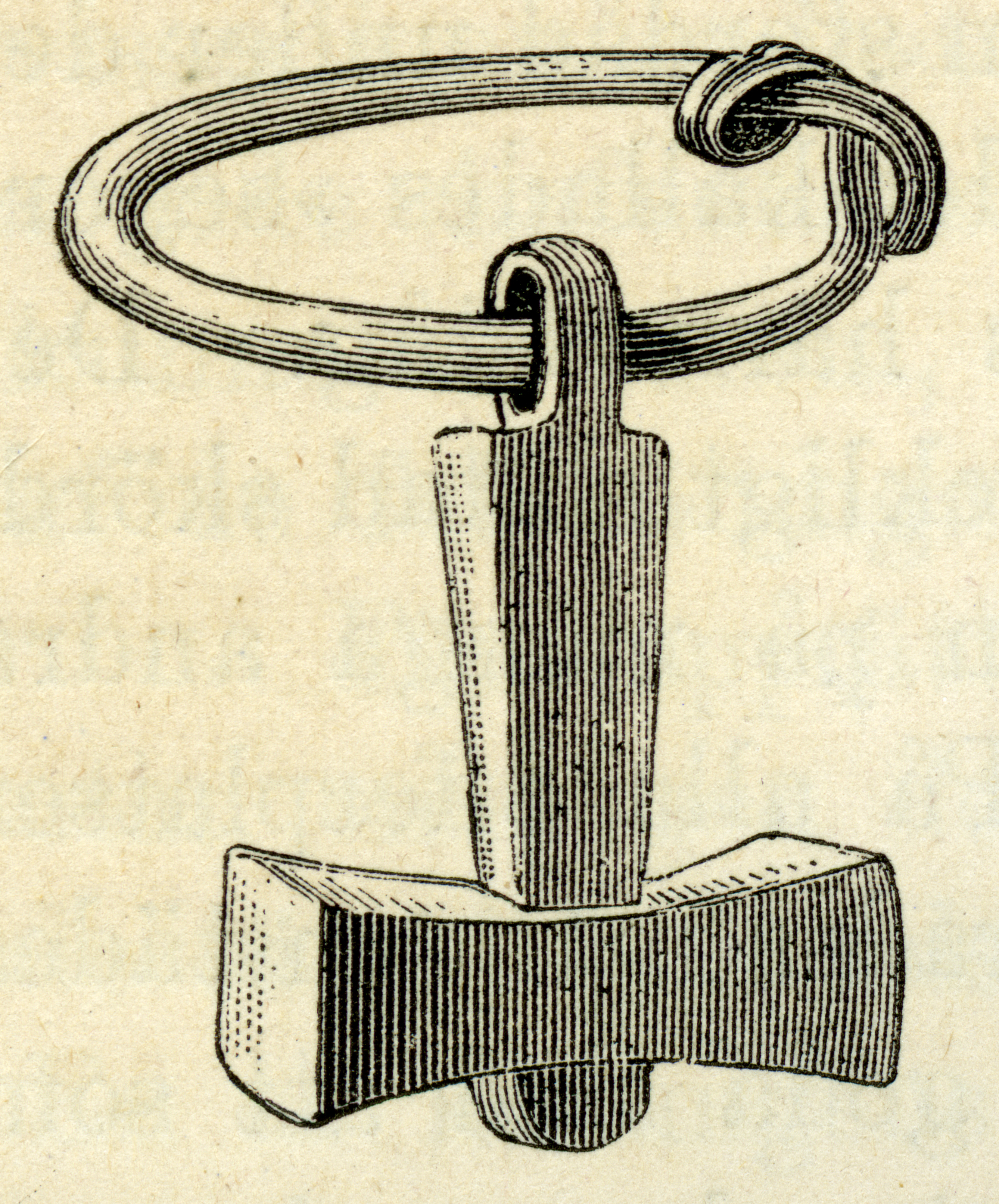 Thor's hammer of silver from Läby parish, Ulleråker hundred, Uppsala municipality, Uppsala county, Uppland, Sweden.